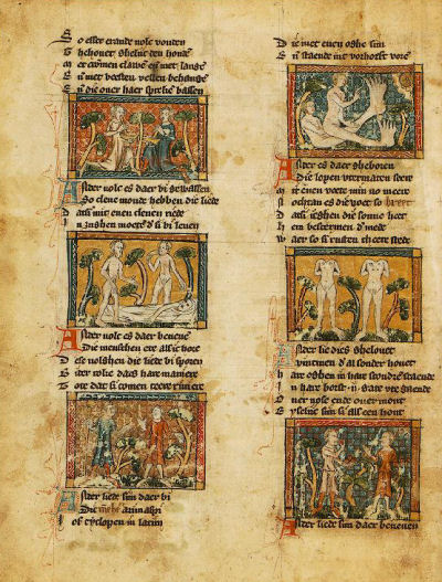 A scan from the medieval Dutch text Der Nature Bloeme from Jacob van Maerlant.